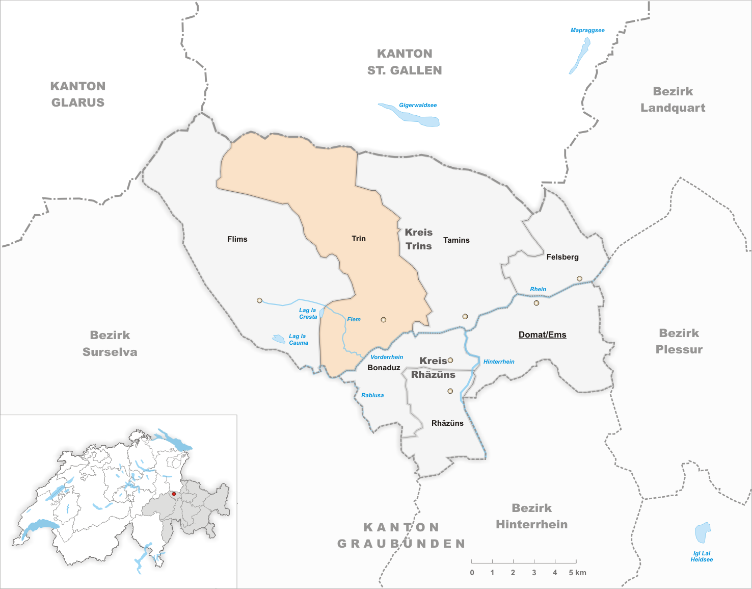 Municipality Trin